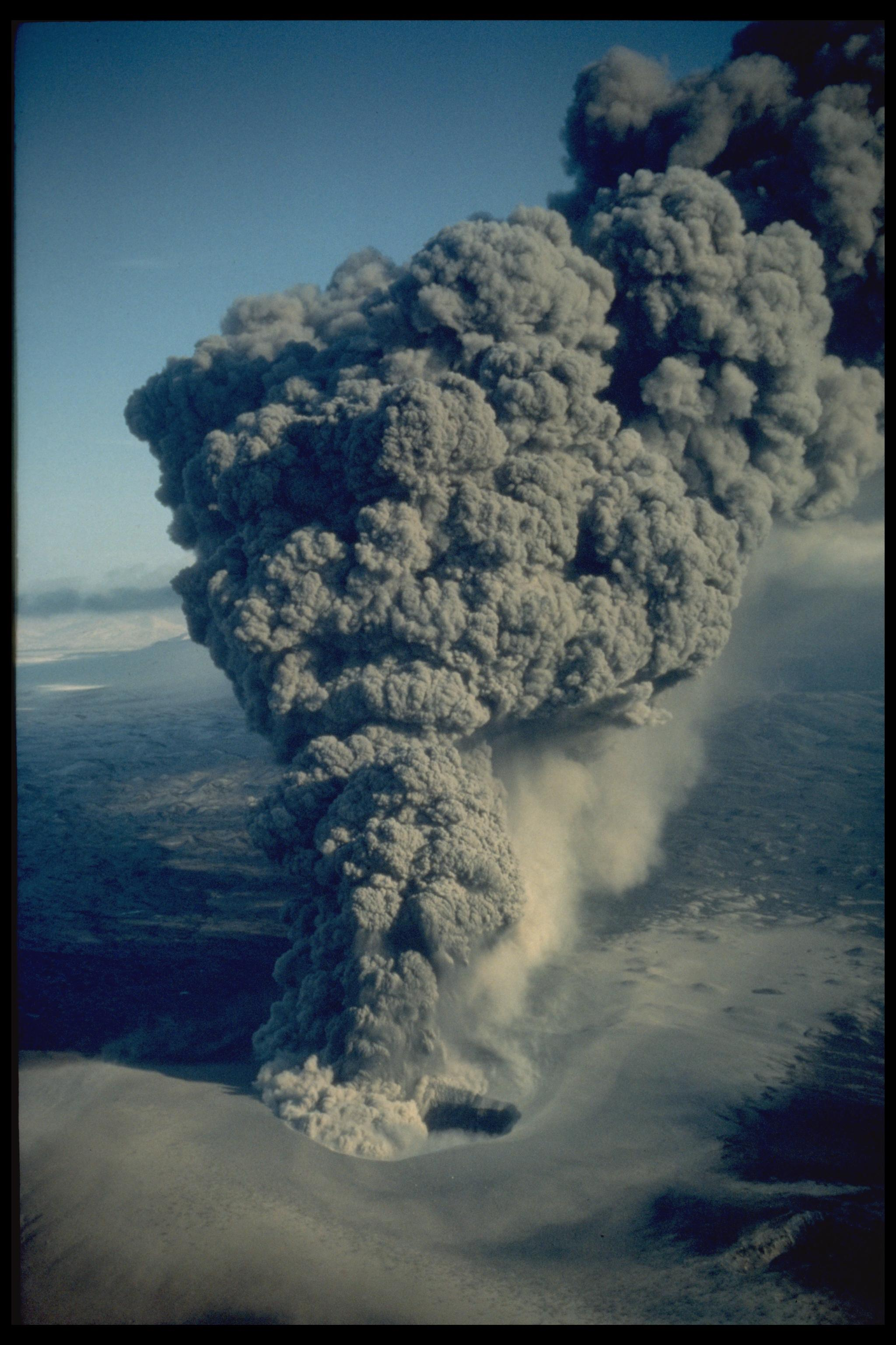 "Ukinrek Maar Volcano. Image courtesy of the photographer. Please cite the photographer and the Alaska Division of Fish and Game when using this image."